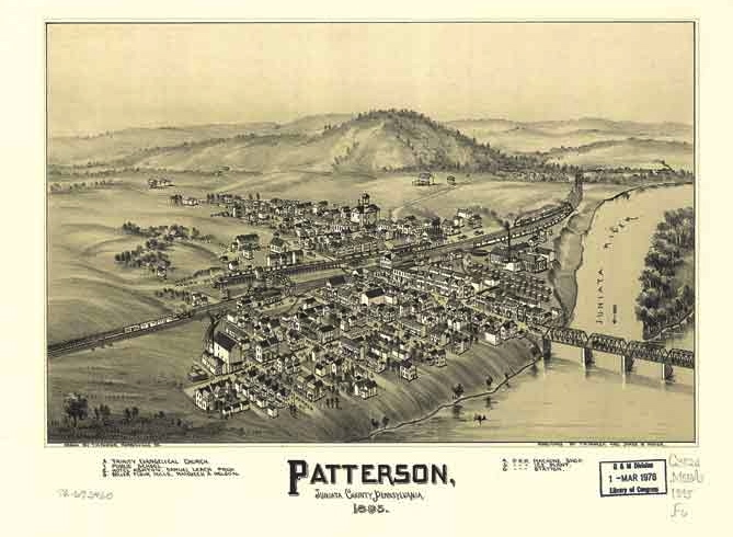 A birds-eye-view of Patterson, Pennsylvania (now the borough of Mifflin, PA) on a print dated 1895. This was licensed on Flickr CC-2.0. There was a watermark at the very top of the image stating "Copyright:Olde Yankee Map and Photo Shoppe" which I take to be a meaningless claim as the image was published in 1895. They list 22,000 more images at